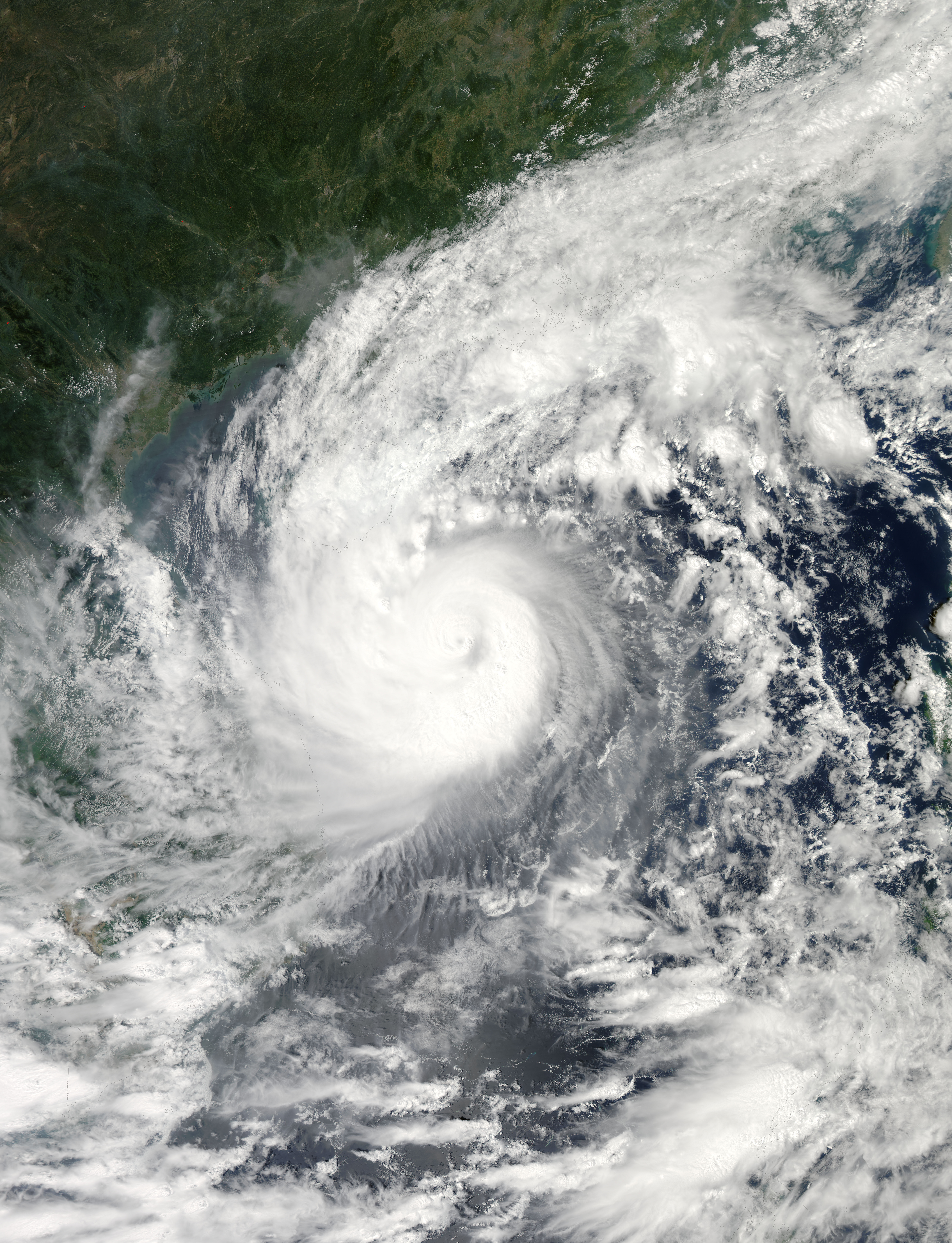 Typhoon Wutip on September 29, 2013